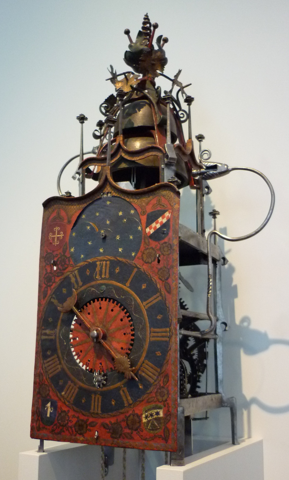 Iron Clock, Eberhard Liechti 1572.